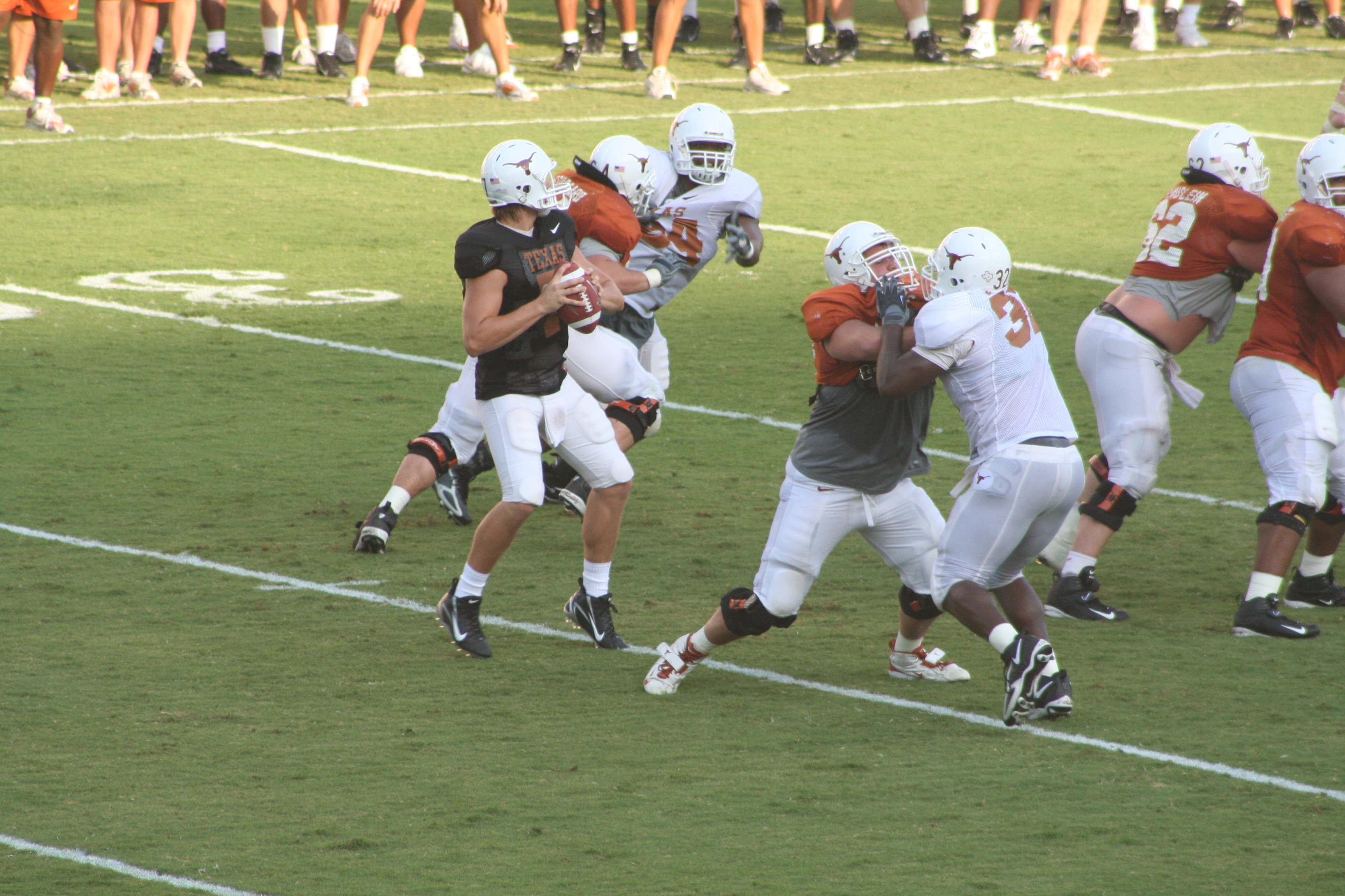 College football game - 2006 fall scrimmage of University of Texas at Austin - UT quarterback Jevan Snead drops back to pass